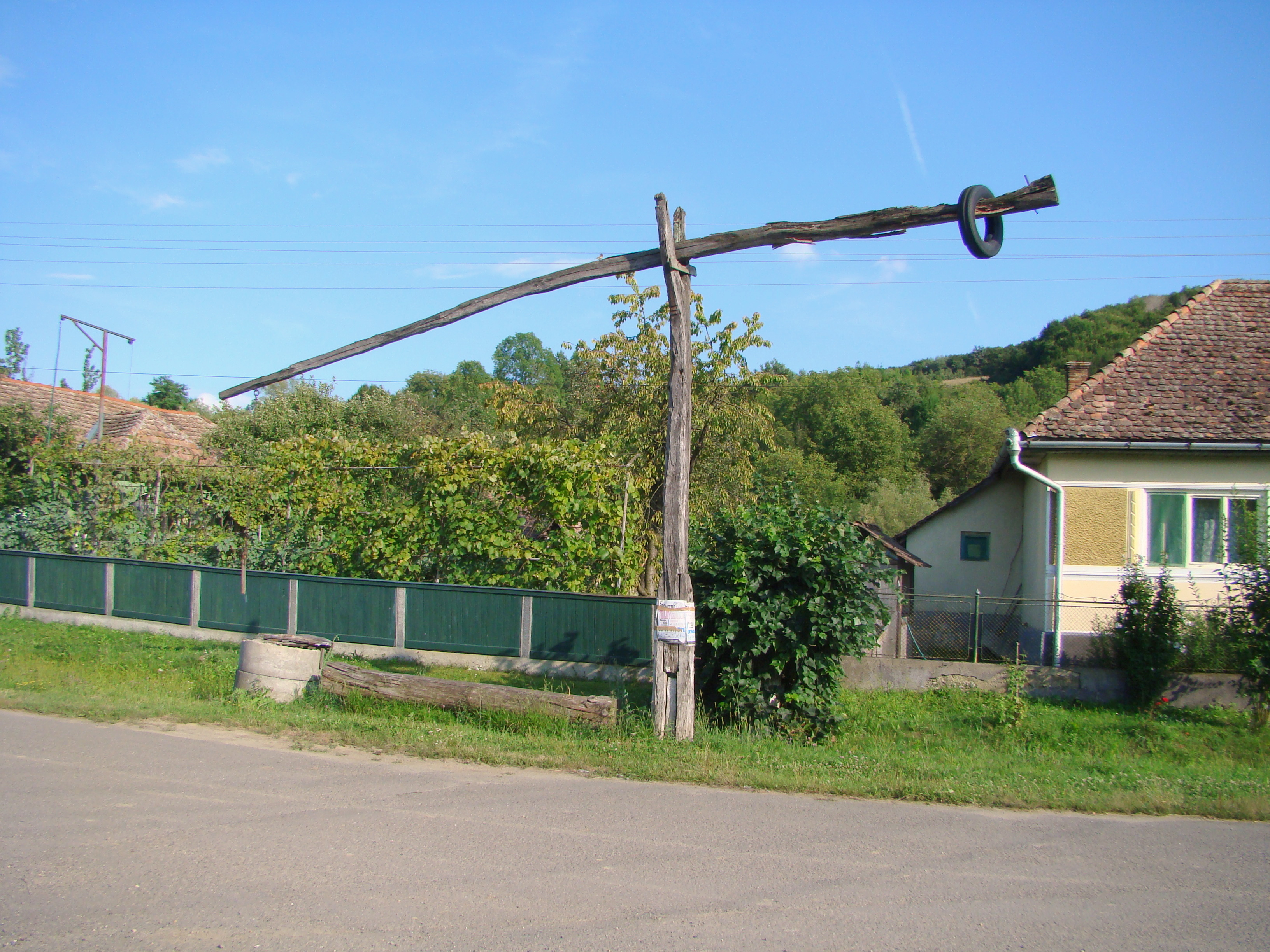 Suveica, Mureș county, Romania